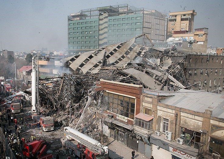 Plasko Collapsed